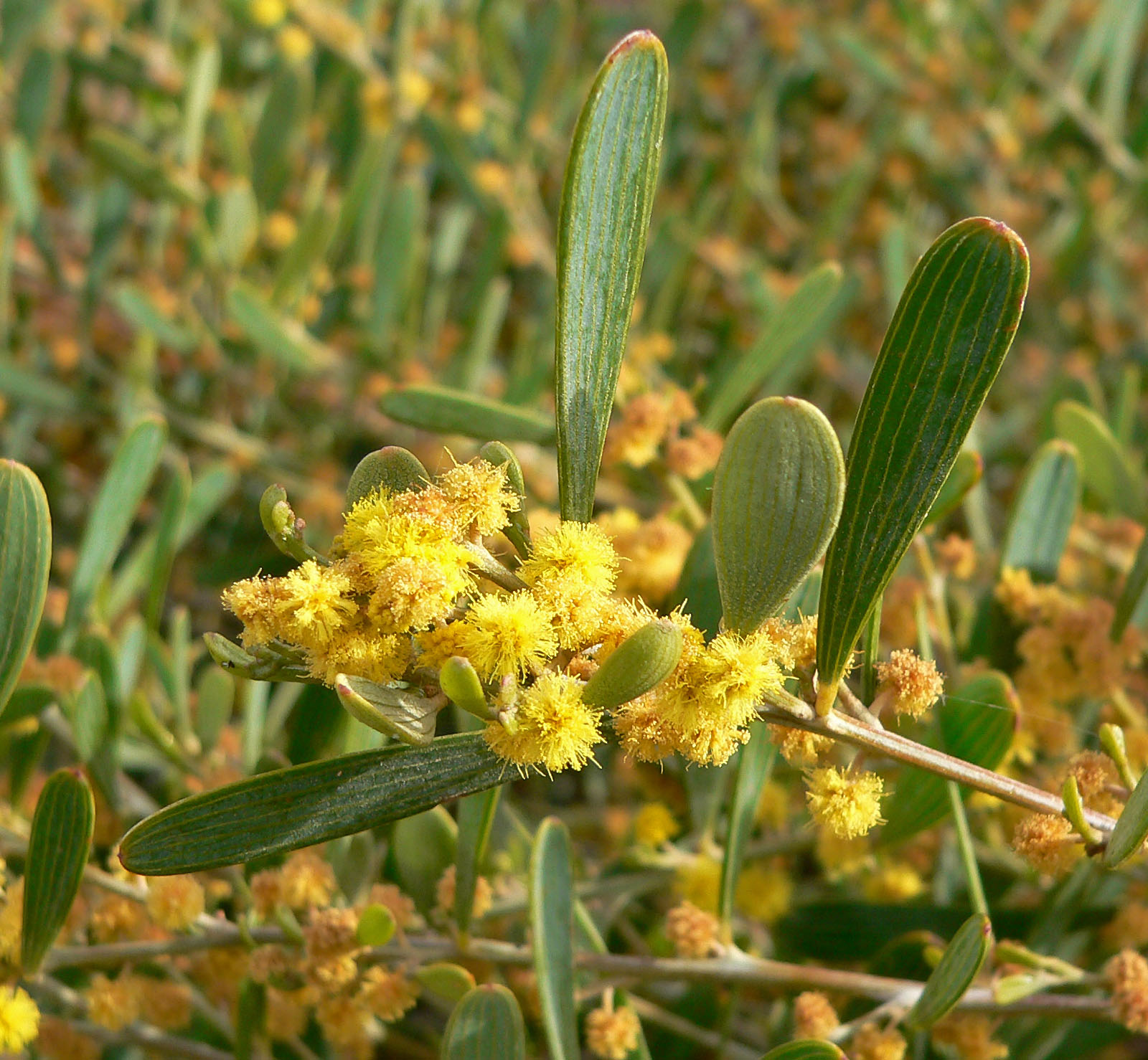 Acacia redolens at the UNLV arboretum, Las Vegas, Nevada